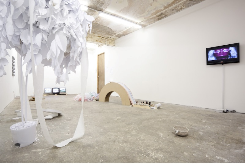 Installation view of Unreadymade, curated by Joshua Simon, at FormContent, London, Dec. 2010